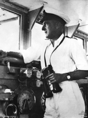 Captain J. Burnett RAN on the bridge of HMAS Sydney. Captain Burnett was lost in the sinking of the Sydney in its action with the German Auxilary Cruiser Kormoran on 19 November 1941.